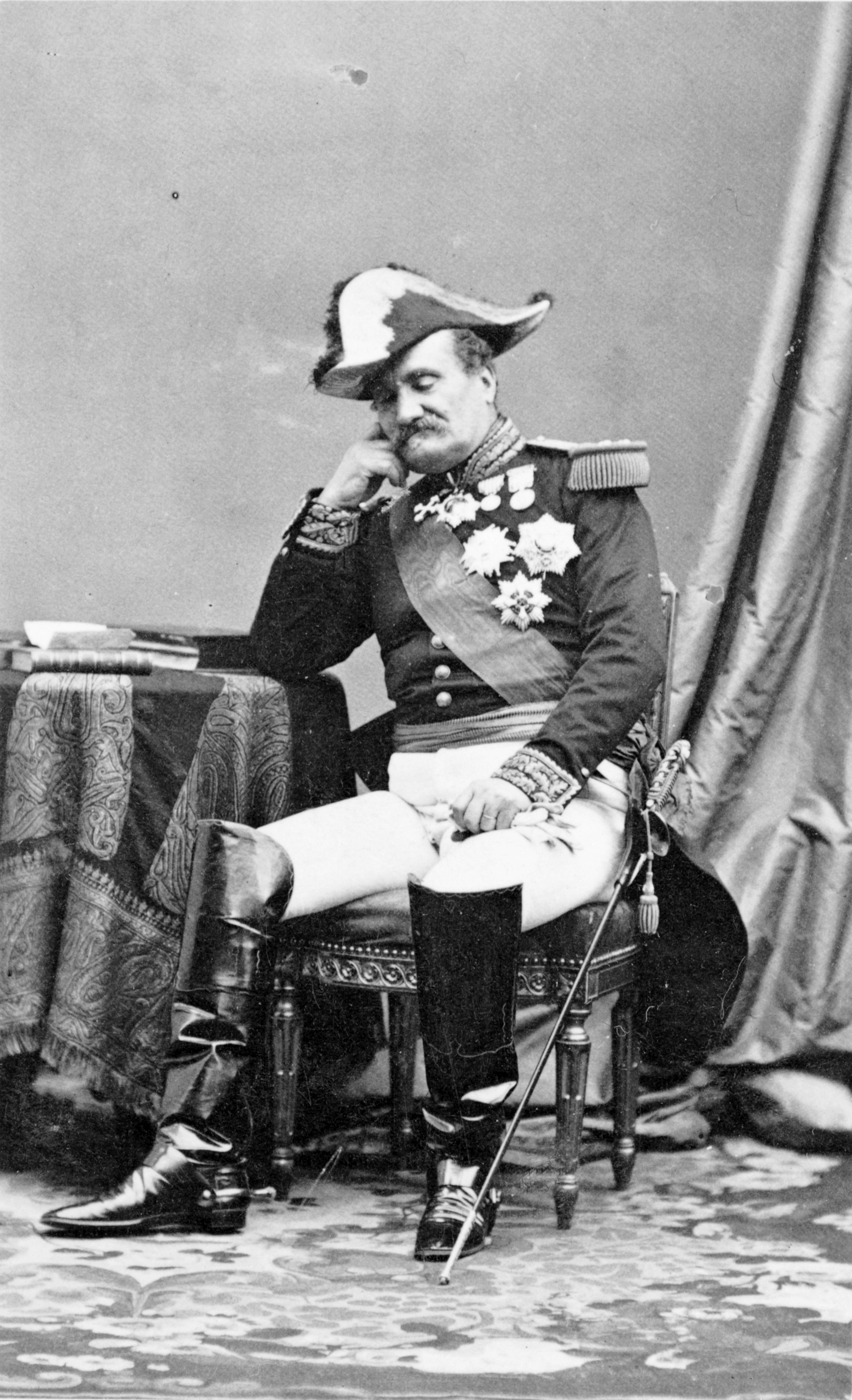 General Élie Frédéric Forey, commander-in-chief of French troops in Mexico, full-length portrait, seated, facing left. In album: Portraits of rulers, politicians ... relating to the reign of Emperor Maximilian of Mexico, p. 7, upper right.